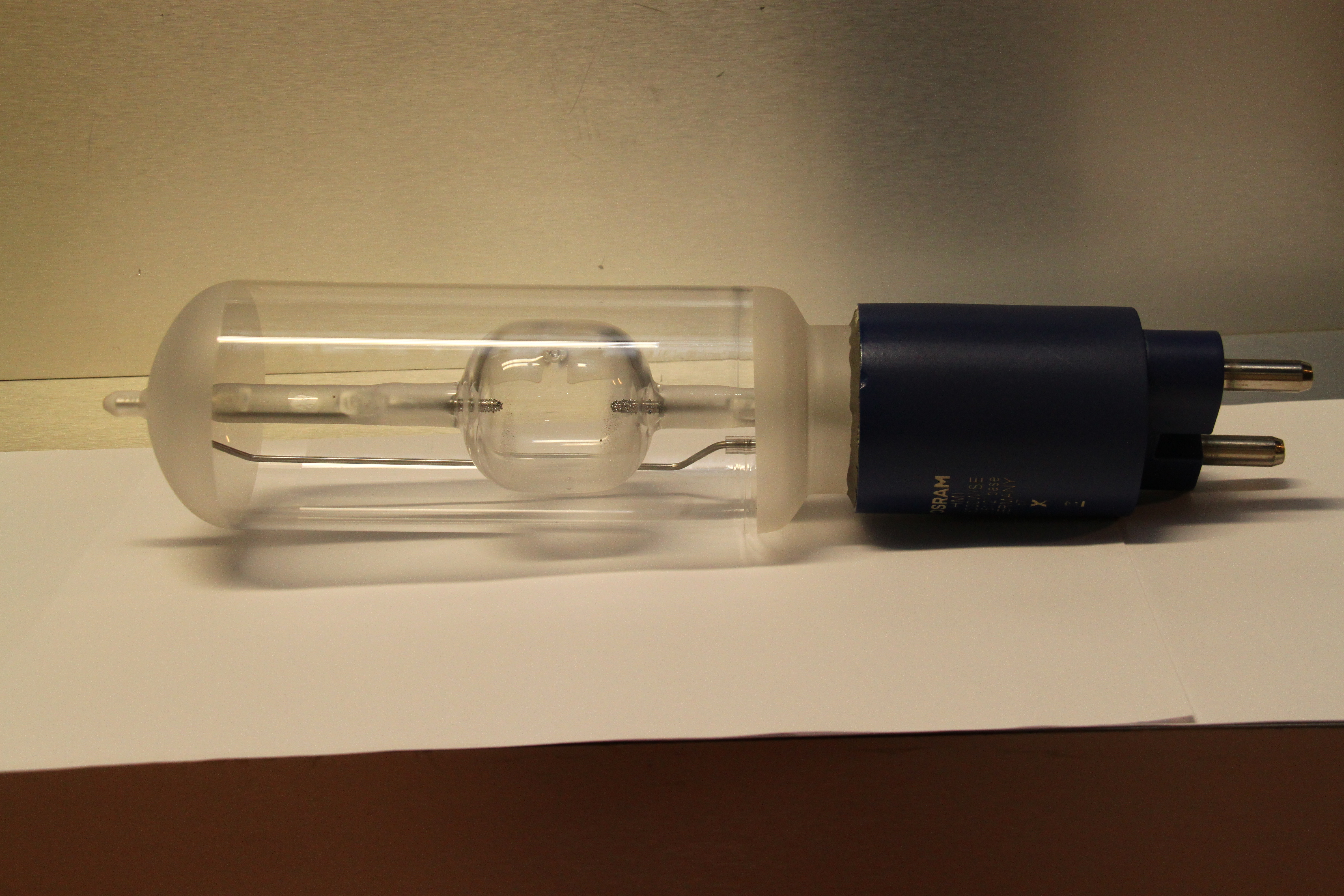 OSRAM HMI lamp 18 kW SE GX51/2 (Hydrargyrum medium-arc iodide lamp), type monoculot.